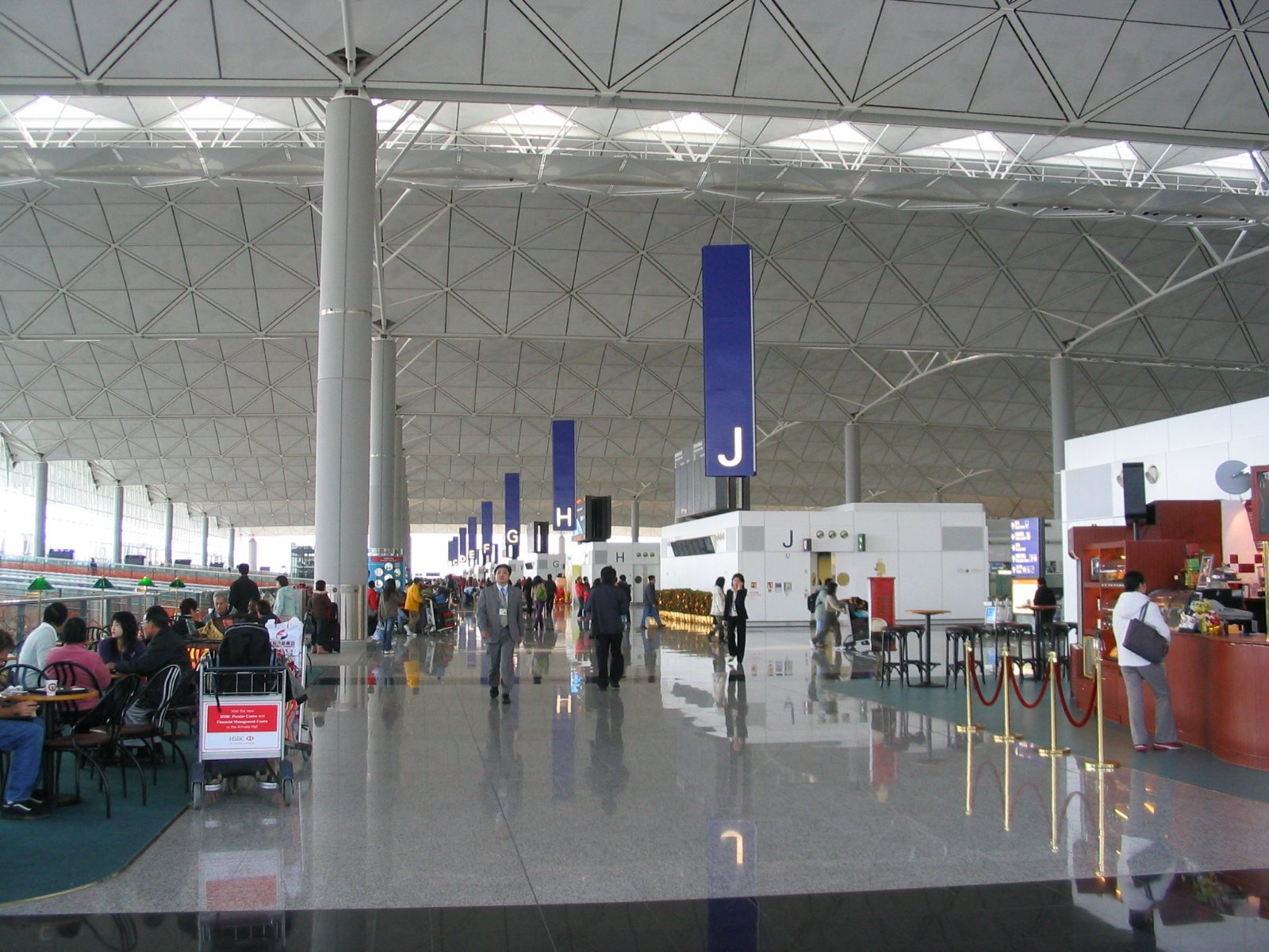 香港國際機場-一號客運大樓7樓 (7/F, Terminal 1, Hong Kong International Airport)